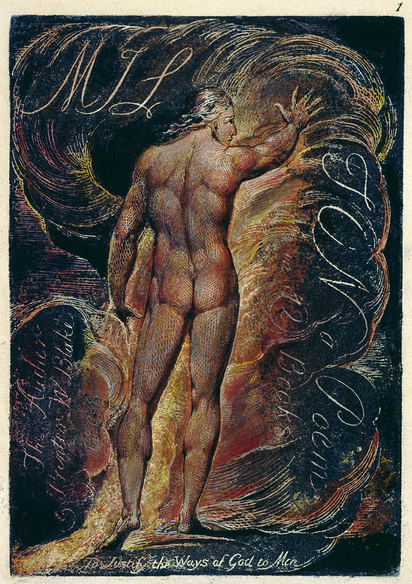 Milton a Poem copy D 1818 Library of Congress object 1